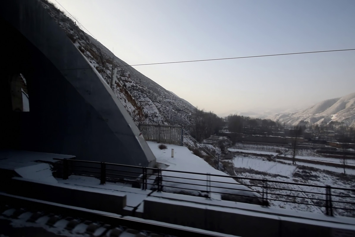 West entrance of Zhangjiazhuang Tunnel, Lanzhou-Xinjiang High-Speed Railway